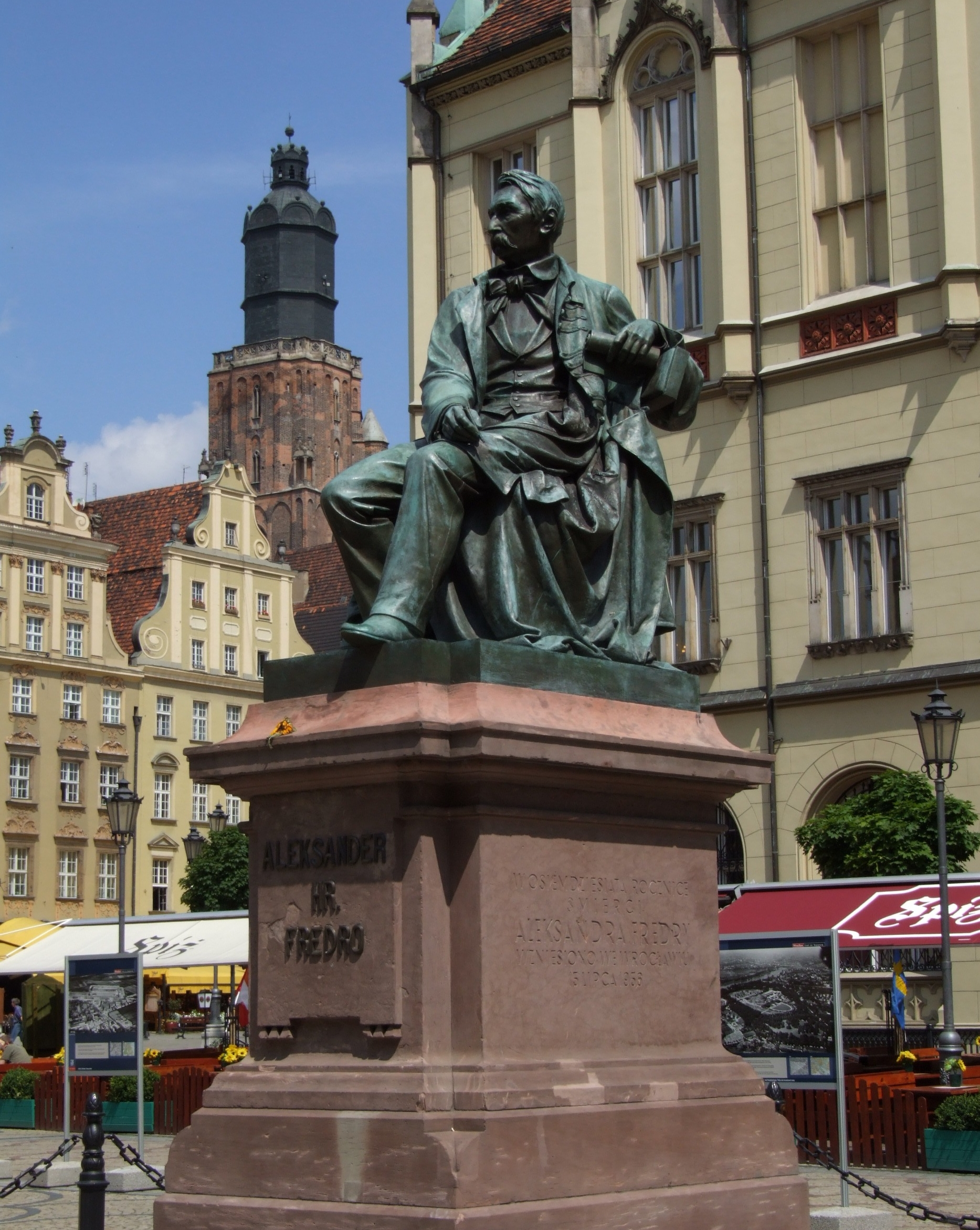 Monument to Aleksander Fredro in Wrocław (Breslau). Moved in 1956 from Lviv (Lwów)